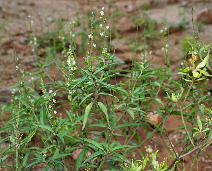 Croton bonplandianus in Hyderabad , India.